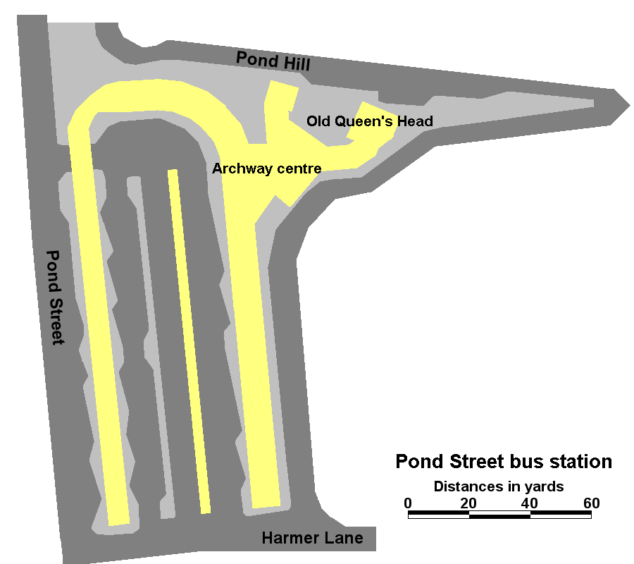 Description: Pond Street bus station, Sheffield Interchange. Author: Gregory Deryckère Source: Own work Date: 13th November 2006